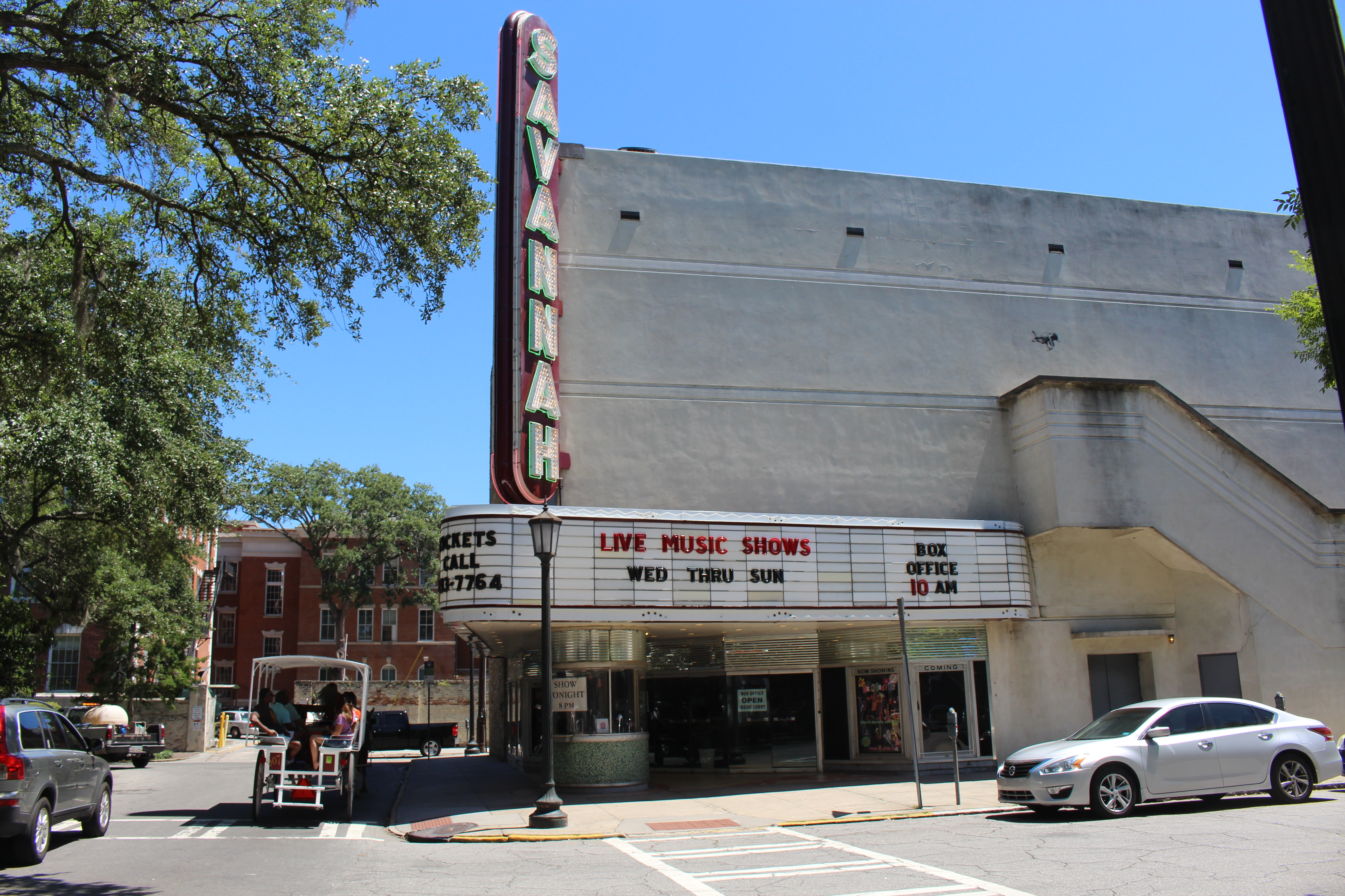 Savannah theater, Savannah, Chatham County, Georgia